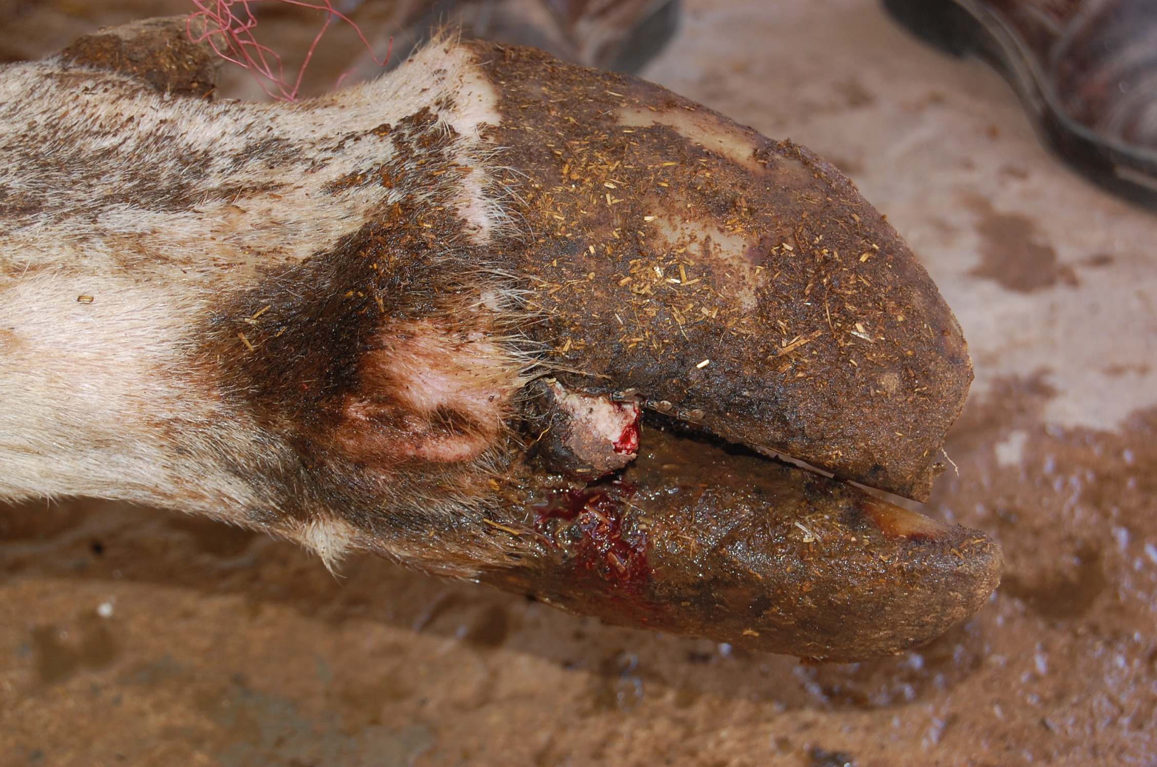 Interdigital skin hyperplasia